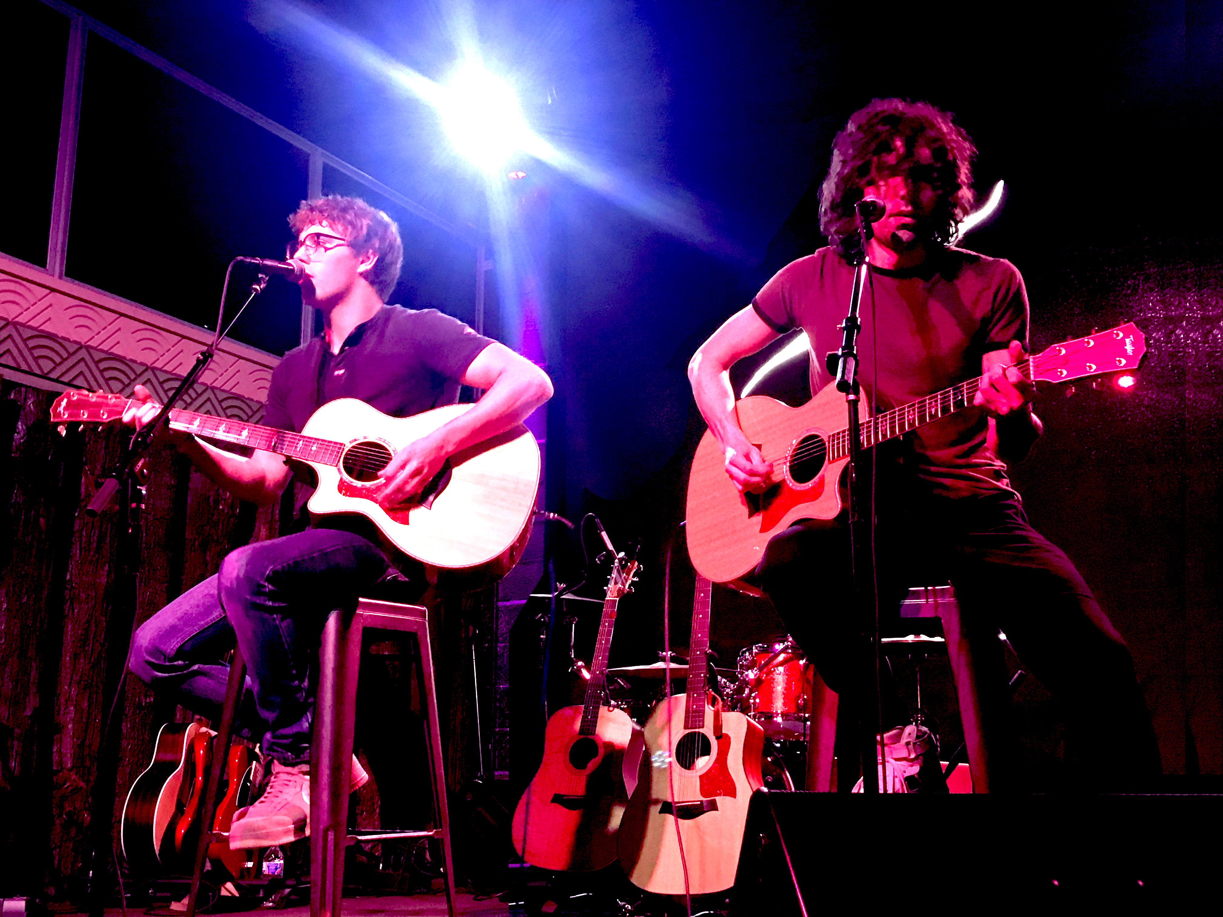 Evan West & Mookie Clouse of New Hollow